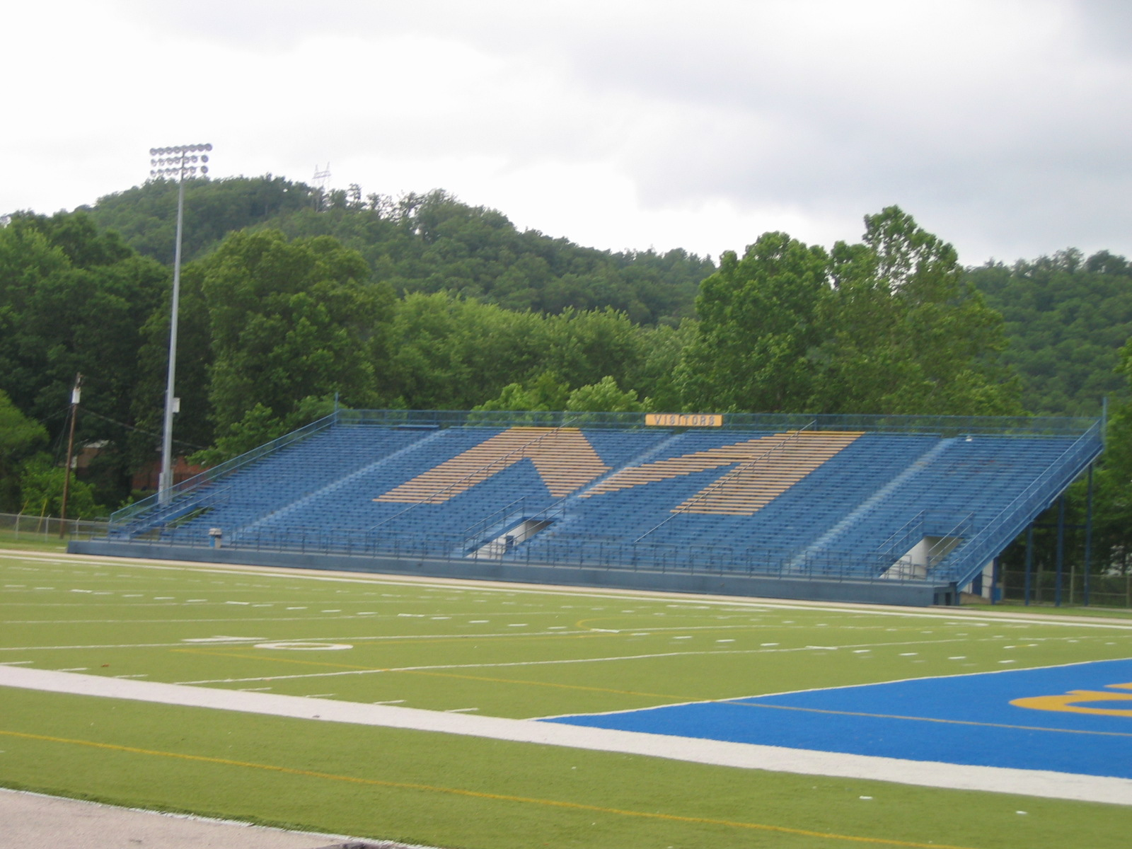 Football & Basketball Facilities Morehead State Football Stadium